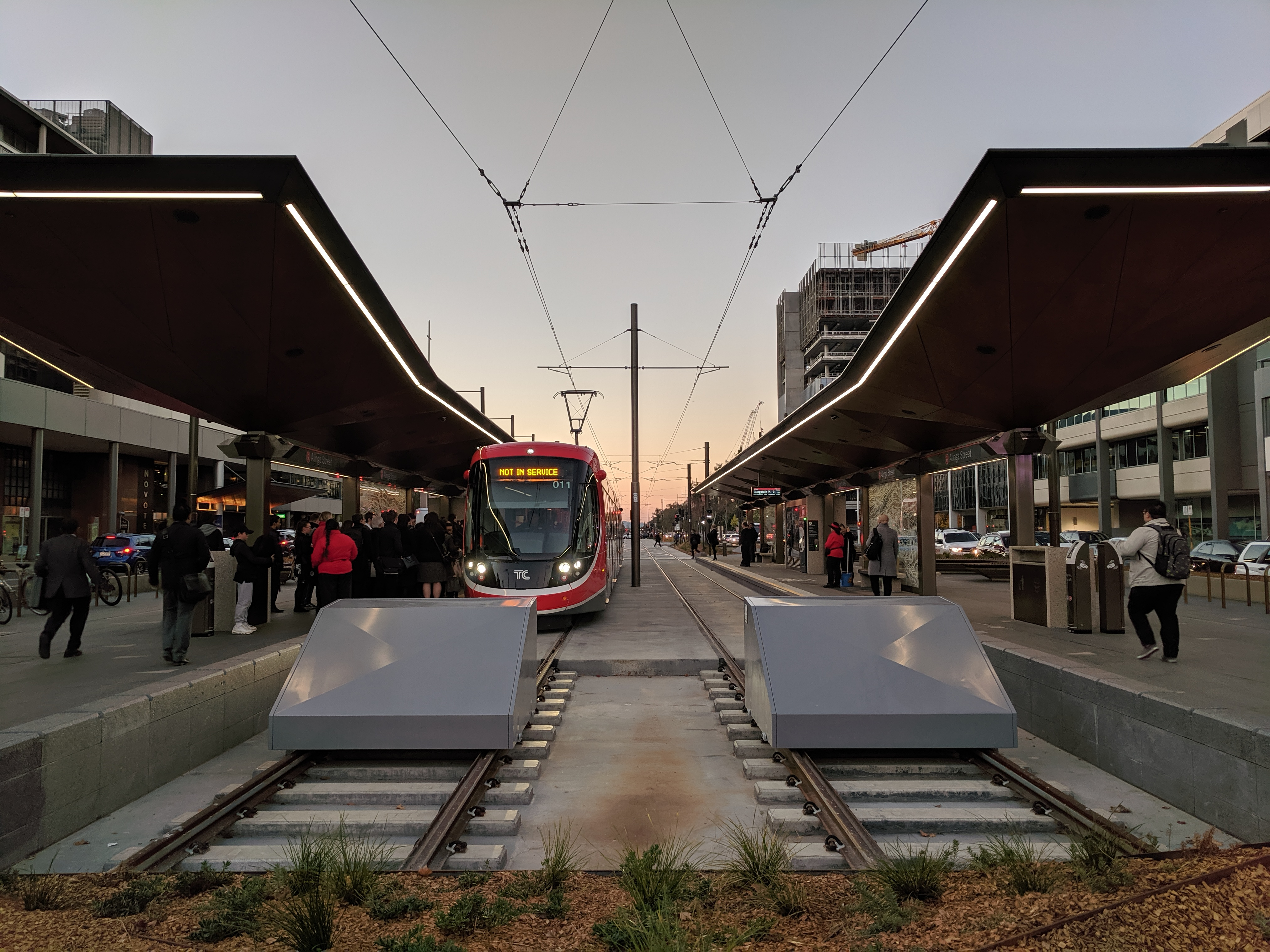 The Alinga Street light rail stop at sunset